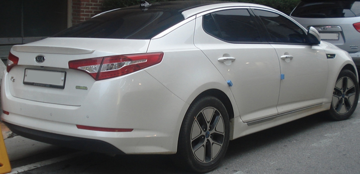 Kia K5 Hybrid